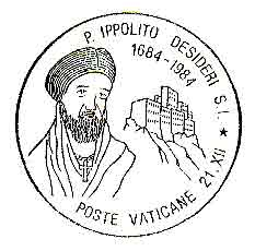 Postmark with the image of Ippolito Desideri